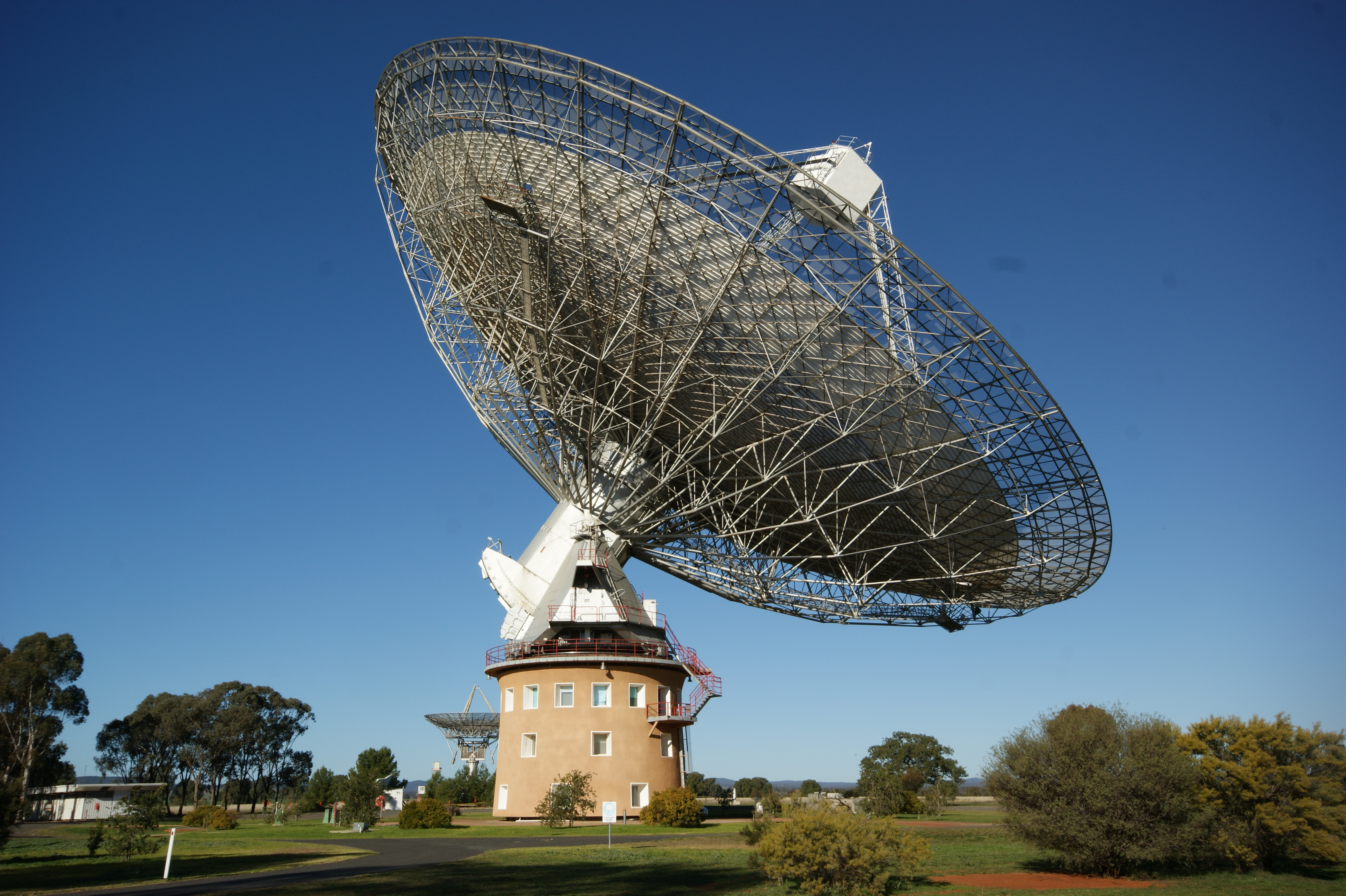 Parkes Observatory, New South Wales, Australia.